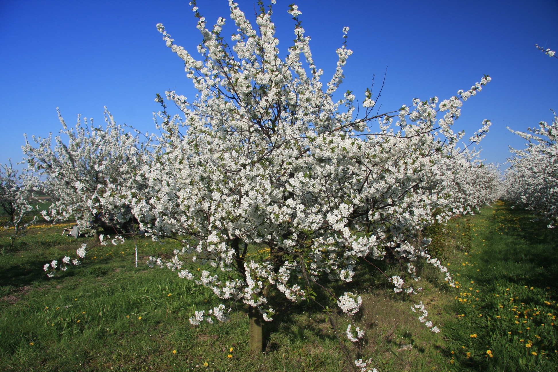 Sour cherry orchard during blooming (English morello)